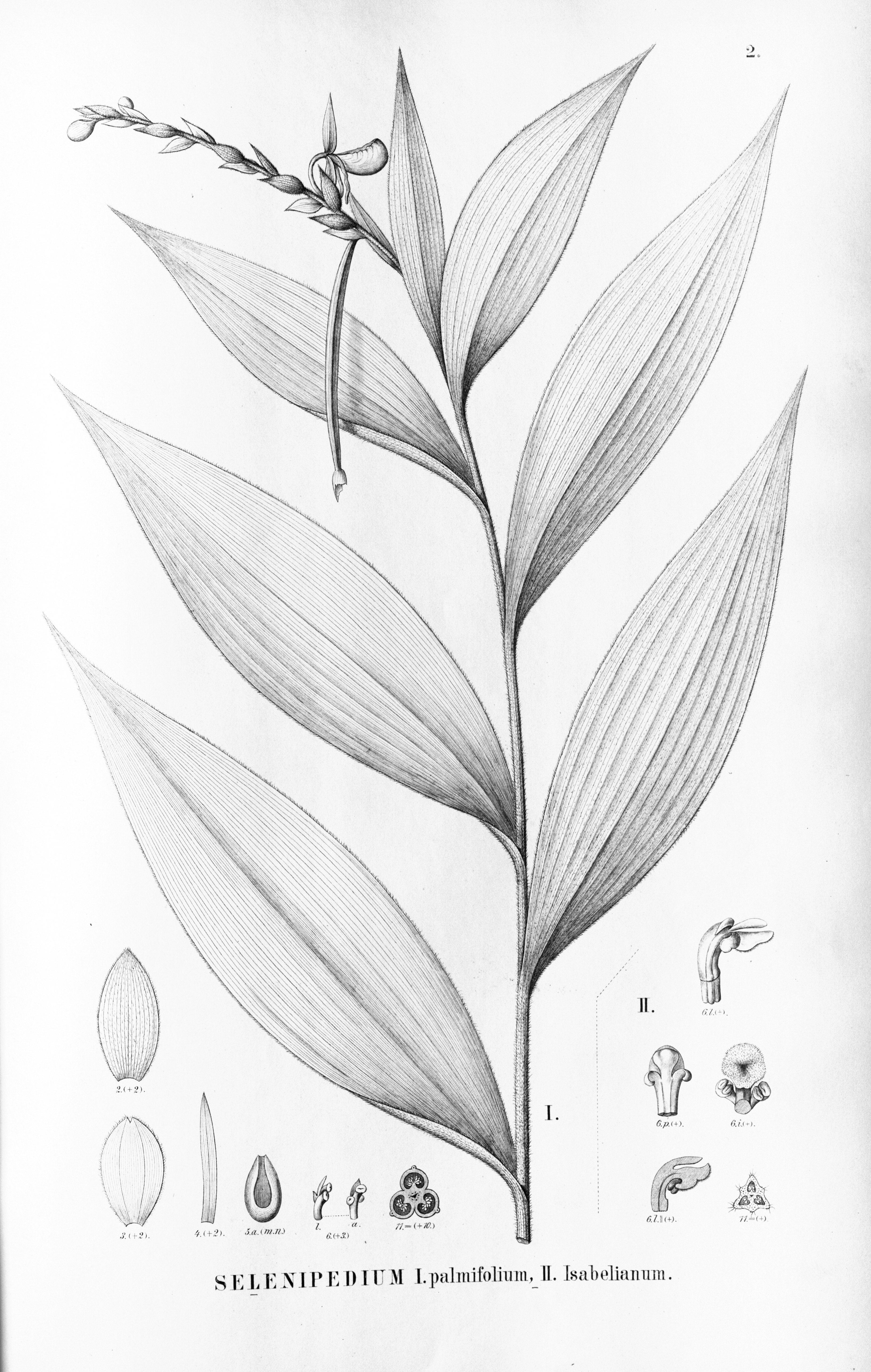 Illustration of Selenipedium isabelianum and Selenipedium palmifolium